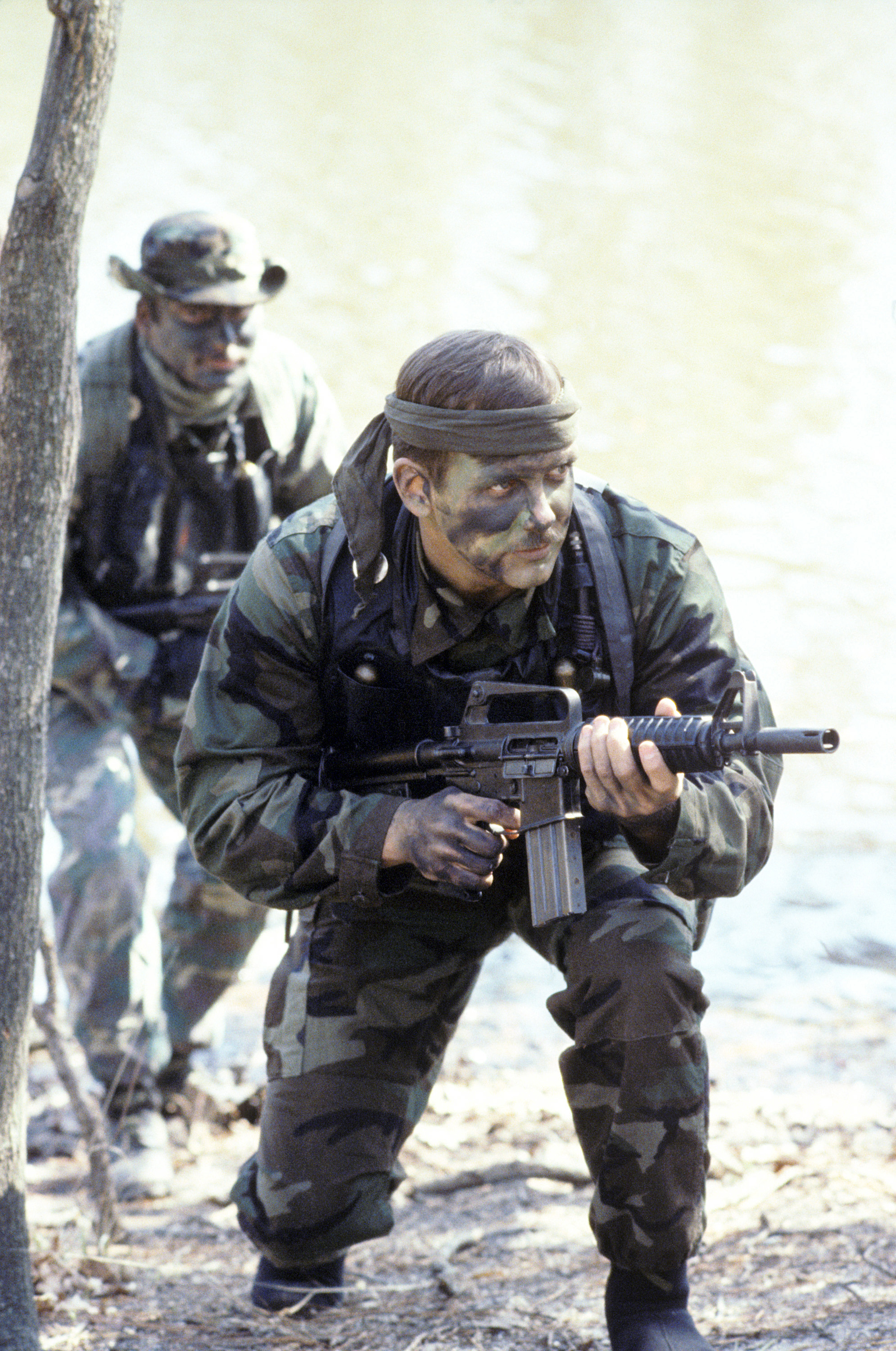 Boatswain's Mate 1st Class Mark Blasen, foreground, and Photographer's Mate 2nd Class Peter Rogers, both members of Sea-Air-Land (SEAL) Team 4, participate in a training exercise. Blasen is armed with a 5.56 mm Colt Commando assault rifle.